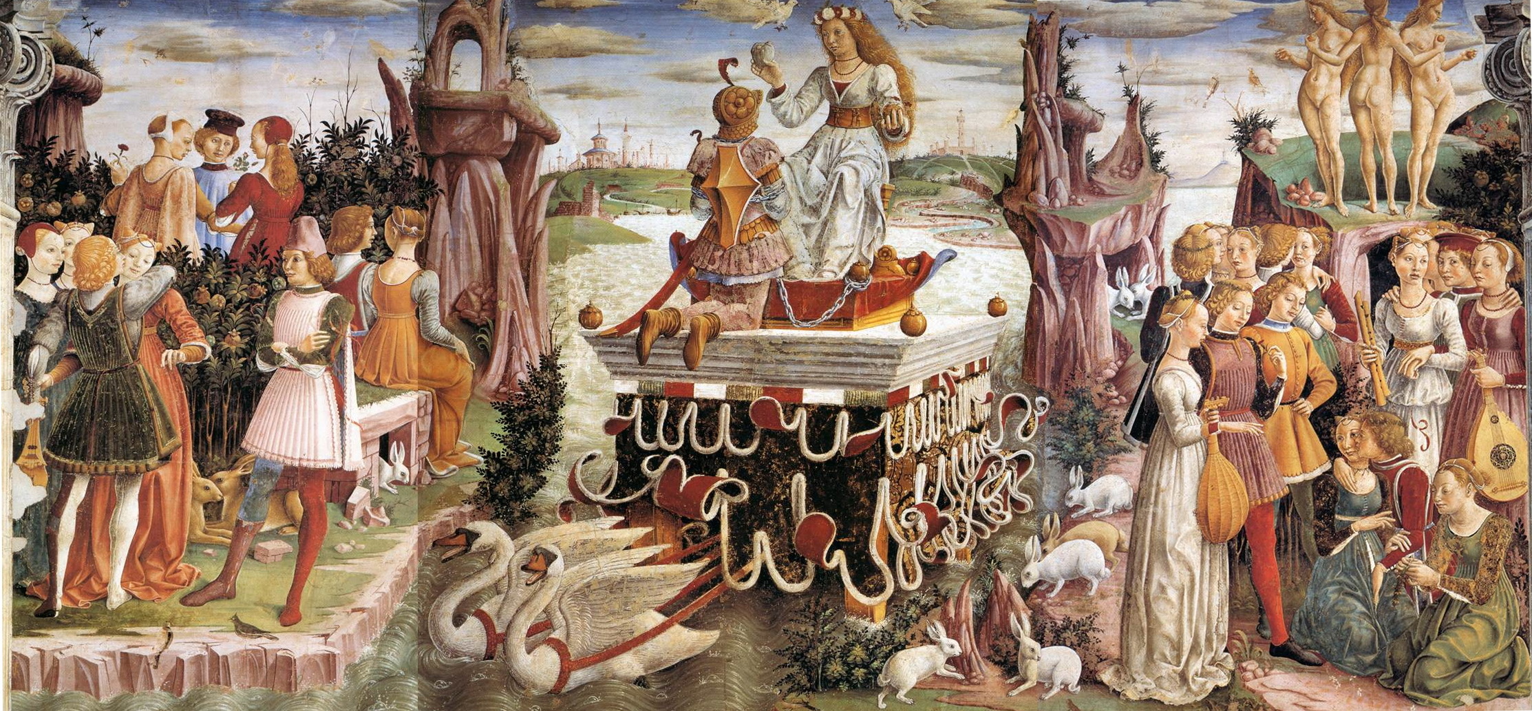 Triumph of Venus